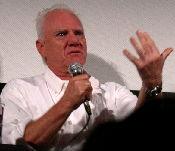 Malcolm McDowell at "The Genius of Stanley Kubrick" at the 2006 Traverse City Film Festival.